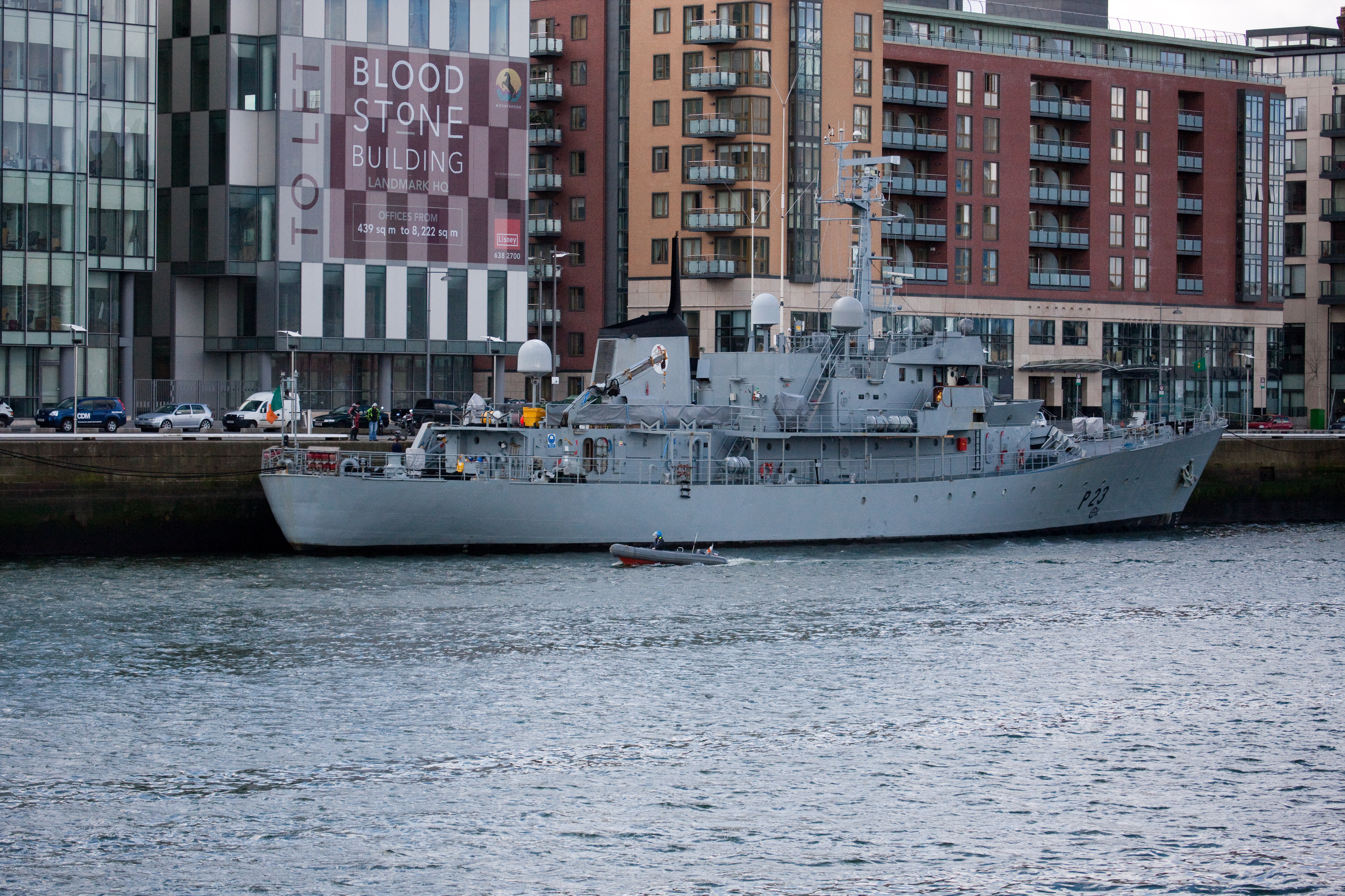 LÉ Aisling (P23) is a ship in the Irish Naval Service. The ship was named Aisling to commemorate the centenary of the birth of Patrick Pearse. Aisling was one of the first ships to arrive on the scene of the Air India Flight 182 disaster, and participated in recovery operations In 1984 LÉ Aisling was involved an international incident with a Spanish fishing trawler called Sonia. Aisling came across Sonia illegally fishing in Irish waters south of the Saltee Islands near Wexford. Sonia quickly retrieved its gear before Aisling could send a boarding party. When Sonia got underway she would have hit Aisling amidships had the Patrol Vessels engines not been put full astern. As it was, Sonia missed the PV by 10 feet, a small margin given the weather conditions. According to the captain the heavy trawler's hull would have sliced Aisling's thin plating. The episode continued with Aisling giving chase and firing warning shots. Sonia turned towards on Aisling numerous times causing the latter to take evasive action. After five hours pursuing the Sonia the captain of the Aisling was ordered to break off as she was entering British waters. When Aisling returned to its base in Haulbowline, Cobh that evening, news was fed back that Sonia sank due to sea conditions and both a German Freighter and RAF Brawdy a sea king helicopter had rescued the 13 crewmen. The Spaniards denied that any attempt had been made to ram Aisling and accused the Naval Service of causing their Ship to sink by riddling it with gunfire. The Irish Government denied this, and the Minister for Foreign Affairs, Mr Peter Barry, TD, reiterated this to his Spanish opposite number who happened to be in Luxembourg negotiating Spain’s entry to the EEC.